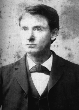 From